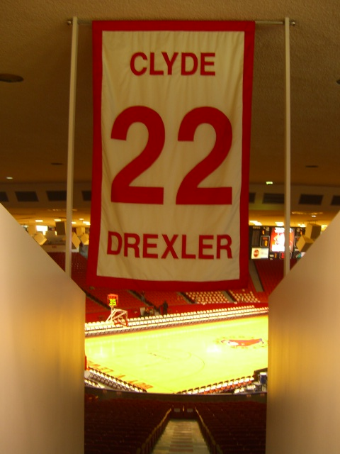 Photo by